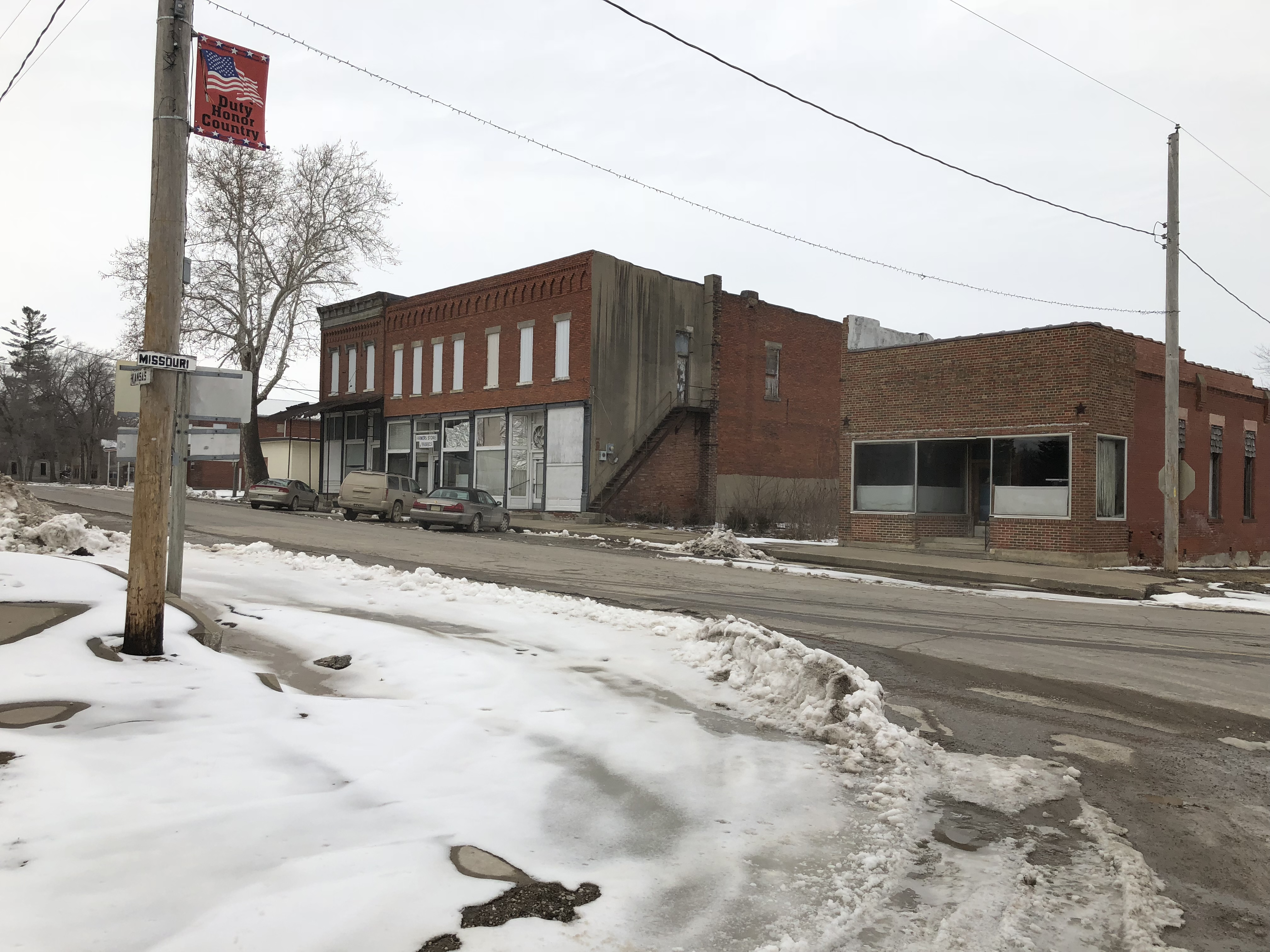 Intersection of Kansas and Missouri streets in Bosworth, Missouri on February 21, 2019